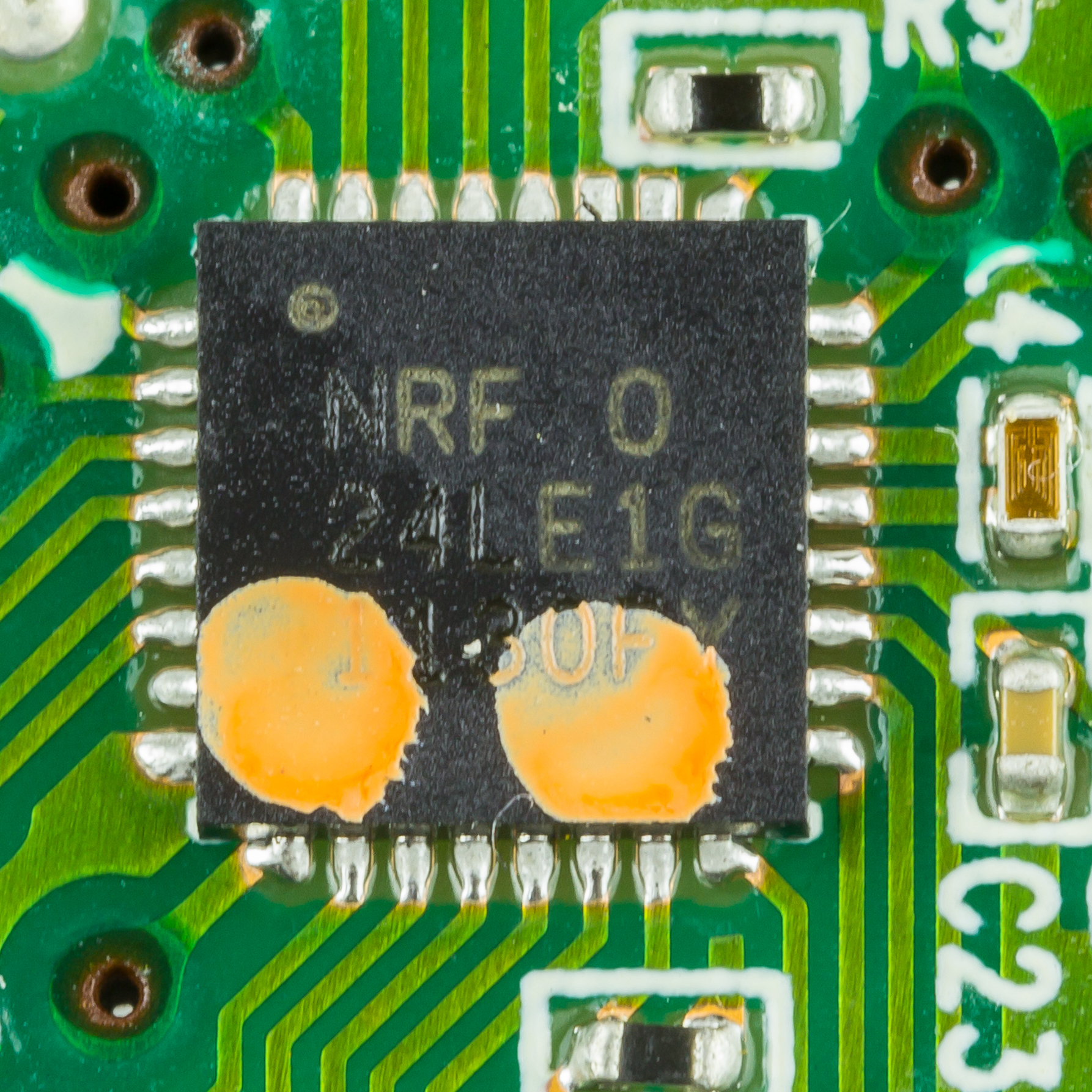 Logitech M210 - optical, wireless computer mouse - Nordic Semiconductor nRF24LE1 - Ultra-low Power Wireless System On-Chip Solution. 32-pin 5x5 QFN-package